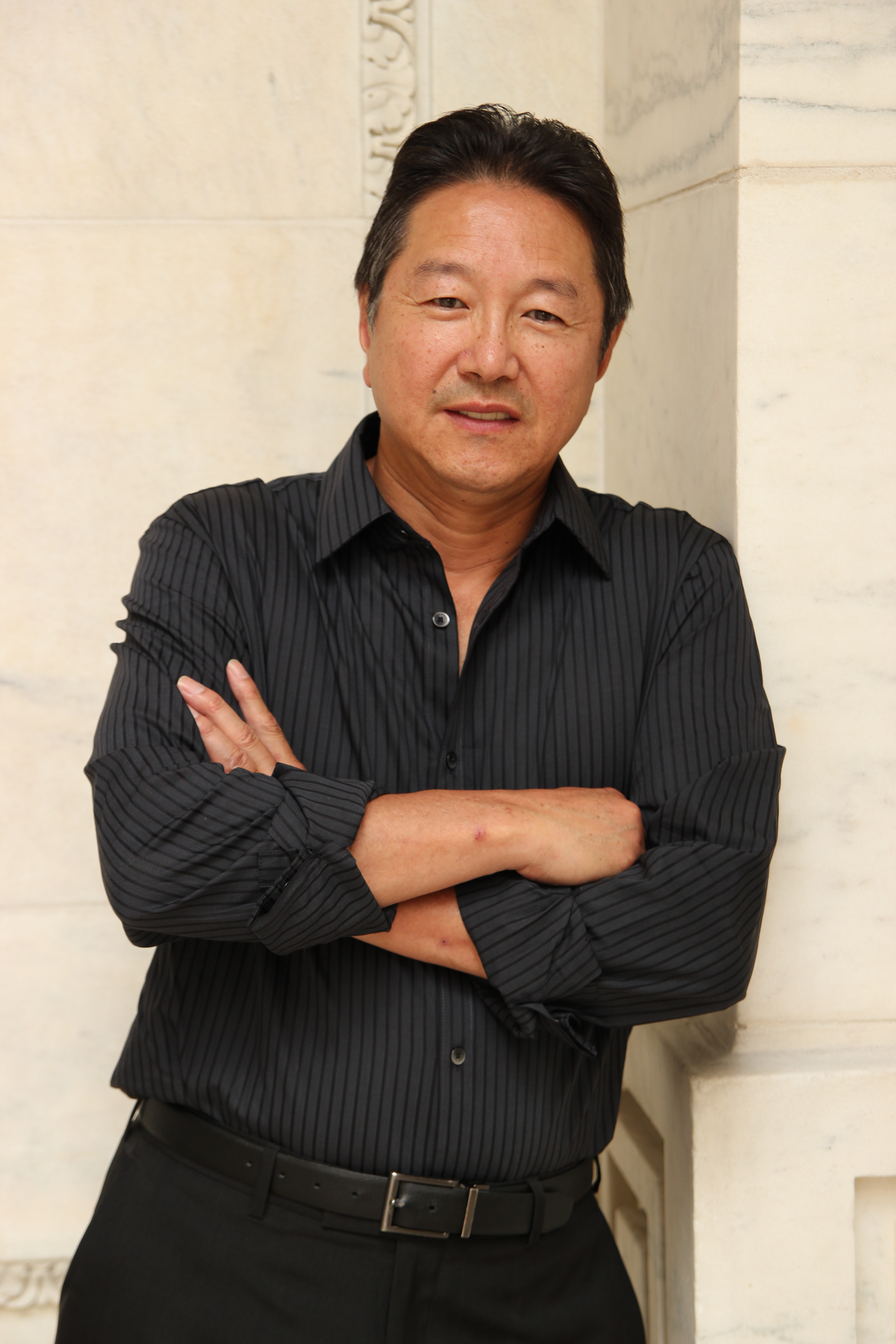 Playwright Rick Shiomi in New York in 2011. Photo by Lia Chang